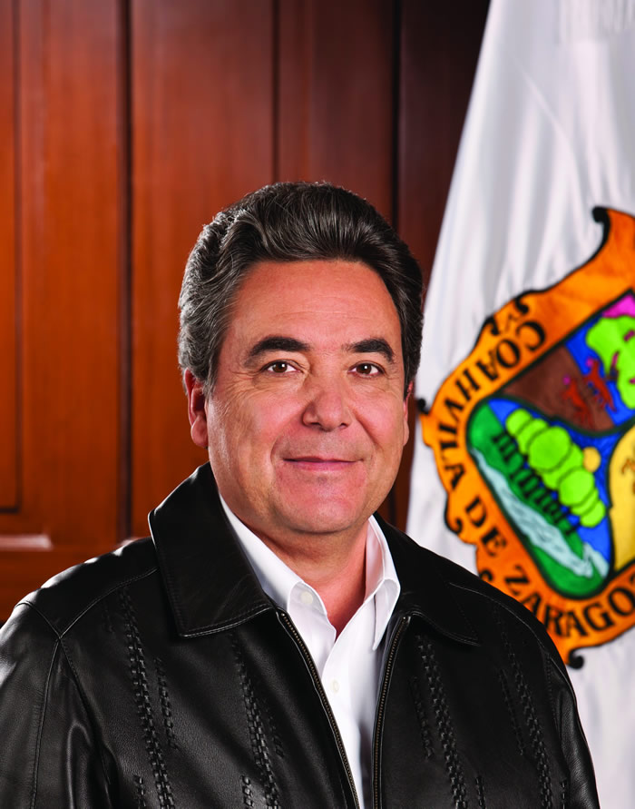 Jorge Juan Torres López, Governor of the State of Coahuila de Zaragoza